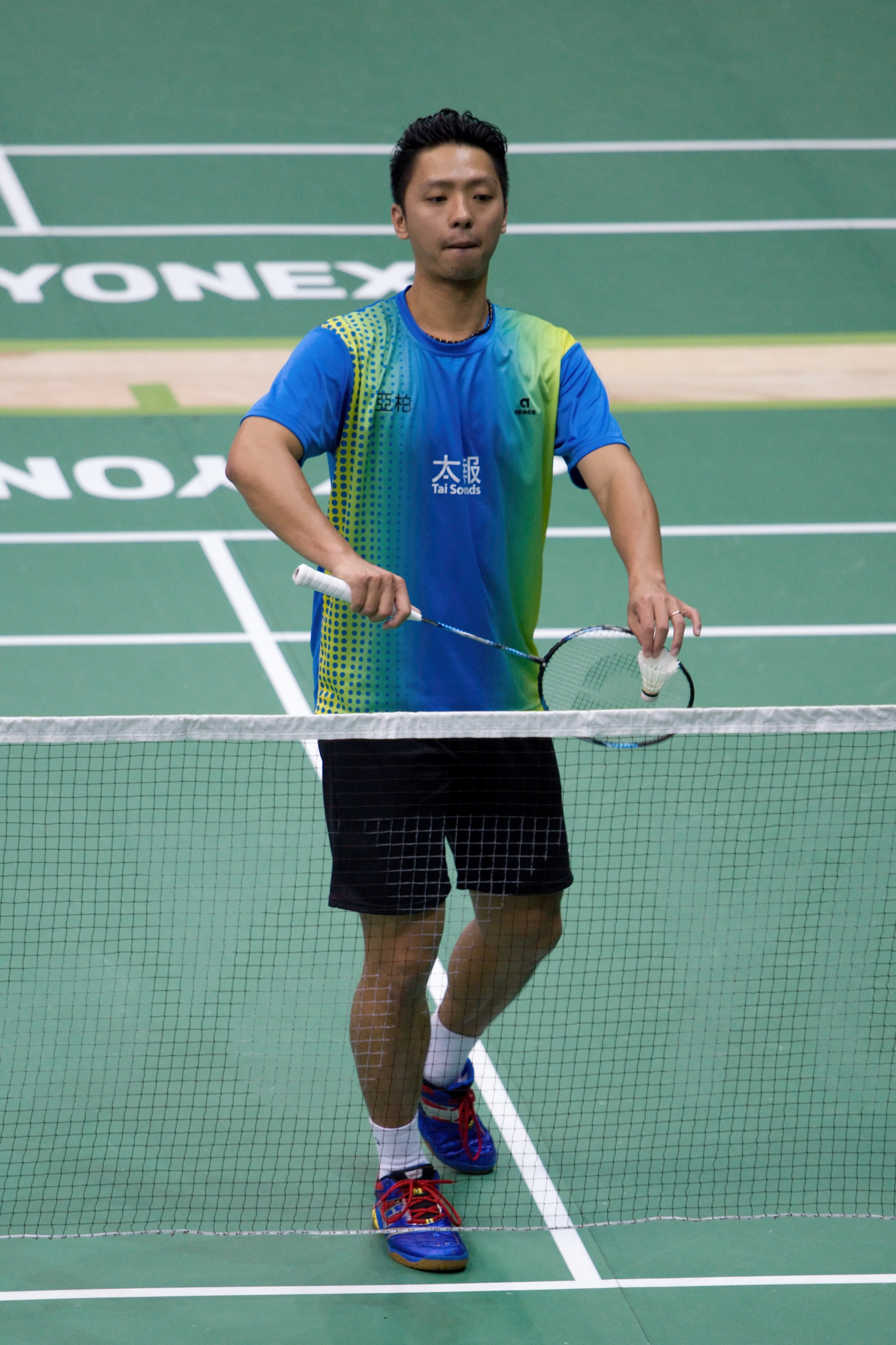 Yonex Chinese Taipei Open 2018 - R2 - Liao Min Chun